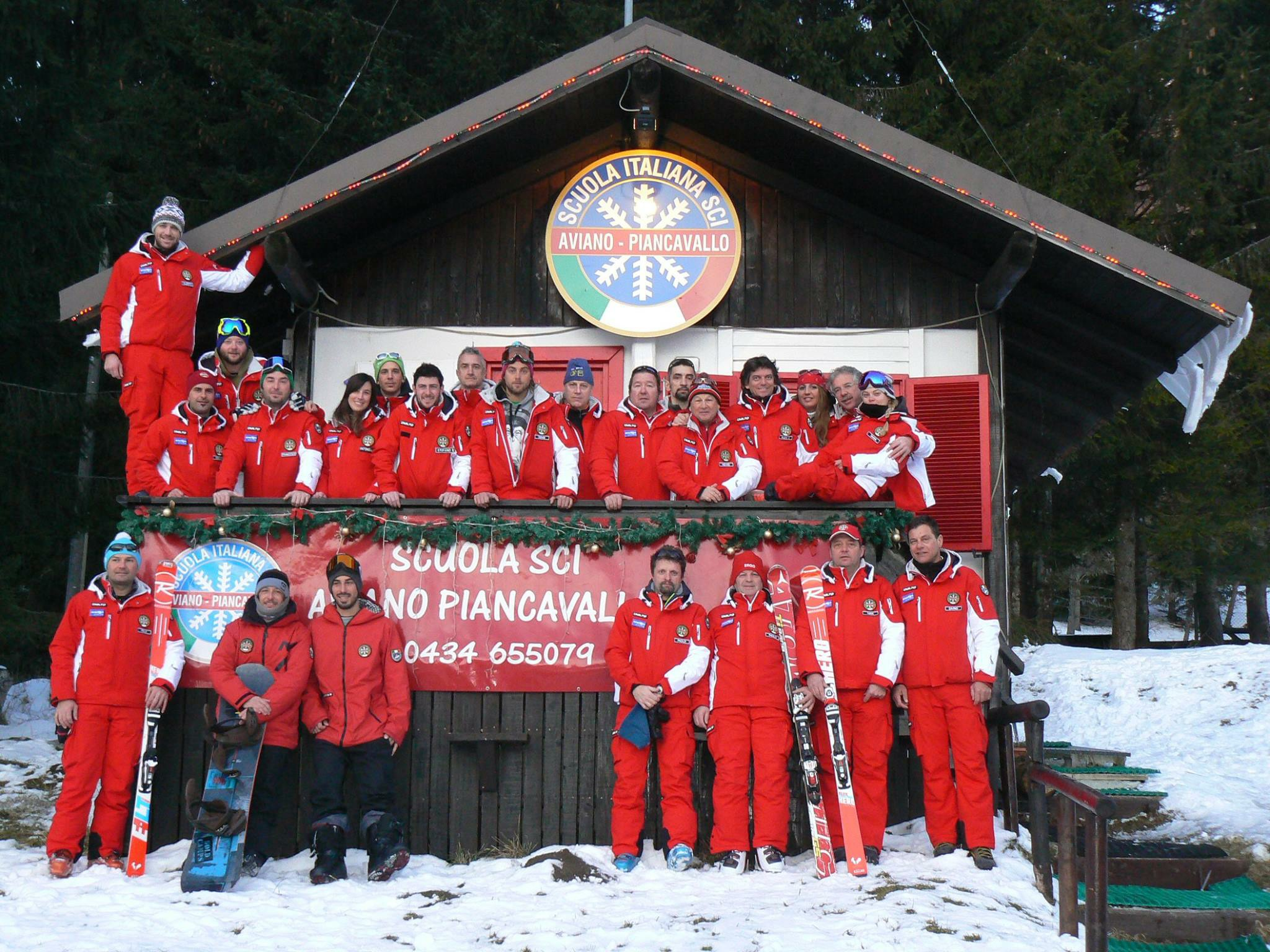 Ski instructor of Scuola Sci Aviano Piancavallo